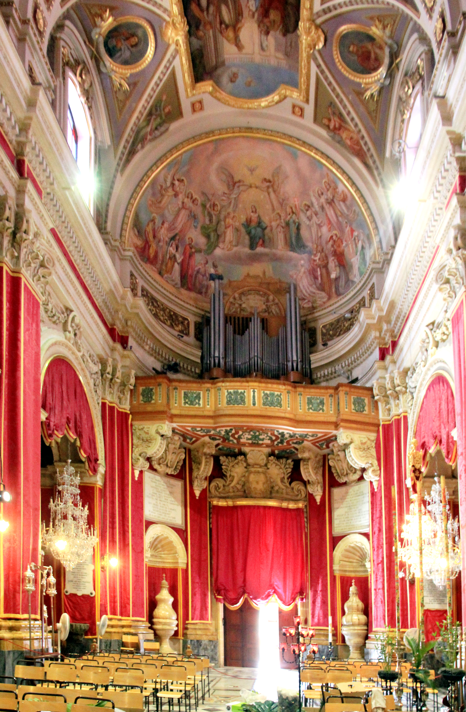 Interior of St. Marija Cathedral in Victoria - capital of Gozo island, Malta